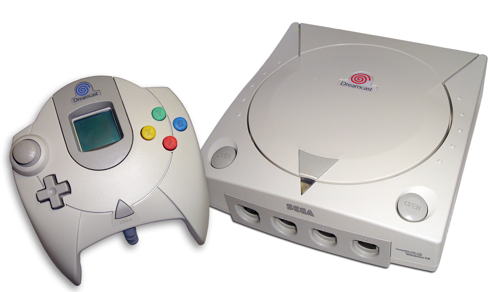 Image of my dreamcast console and controller, taken by me and edited in Adobe Photoshop